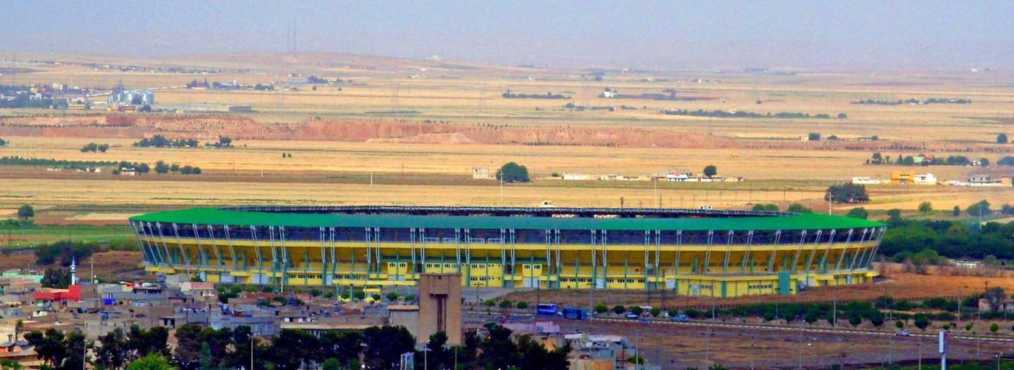 GAP Arena